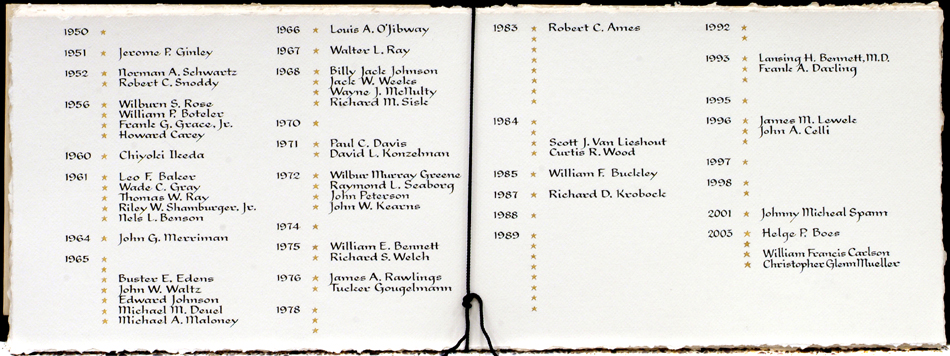 The Book of Honor Originating in 1974 and designed by Harold Vogel, the glass-encased Book of Honor containing 48 names of the 83 honored on the Memorial wall sits on a marble shelf below the Wall. Each name is inscribed using calligraphy on handmade paper with a gold star before each name. Names not revealed are signified by just the gold star. After inscribing, the paper is placed in a black leather book which is hand bound in Moroccan goat skin with a gold embossed CIA seal on its cover. Original source of photo: License: Public Domain, Work of a CIA, a United States Government Agency.